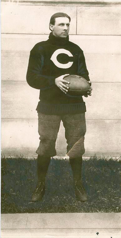 Clarence Bert Herschberger